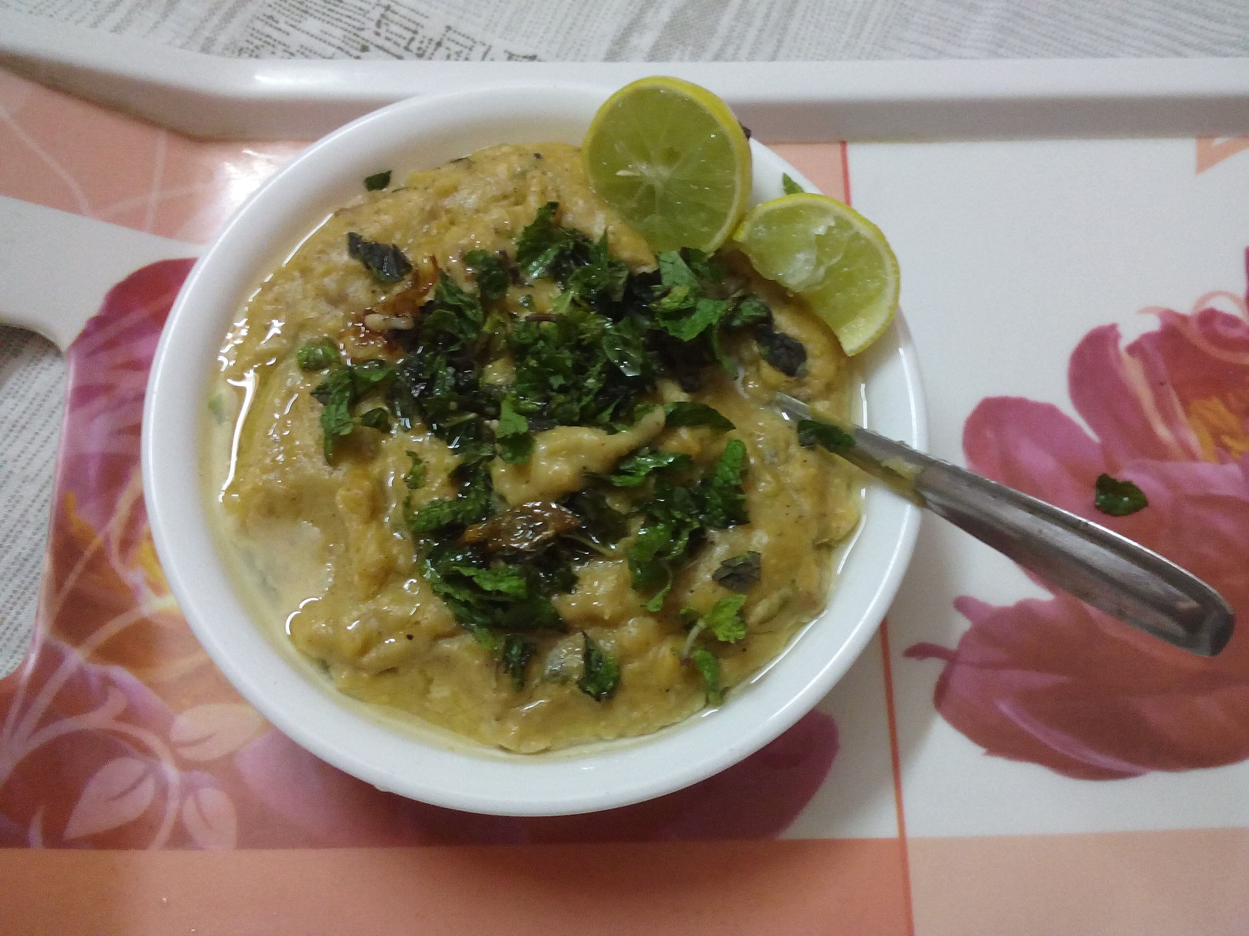 its a dish made up of meat,spices,barley and wheat.